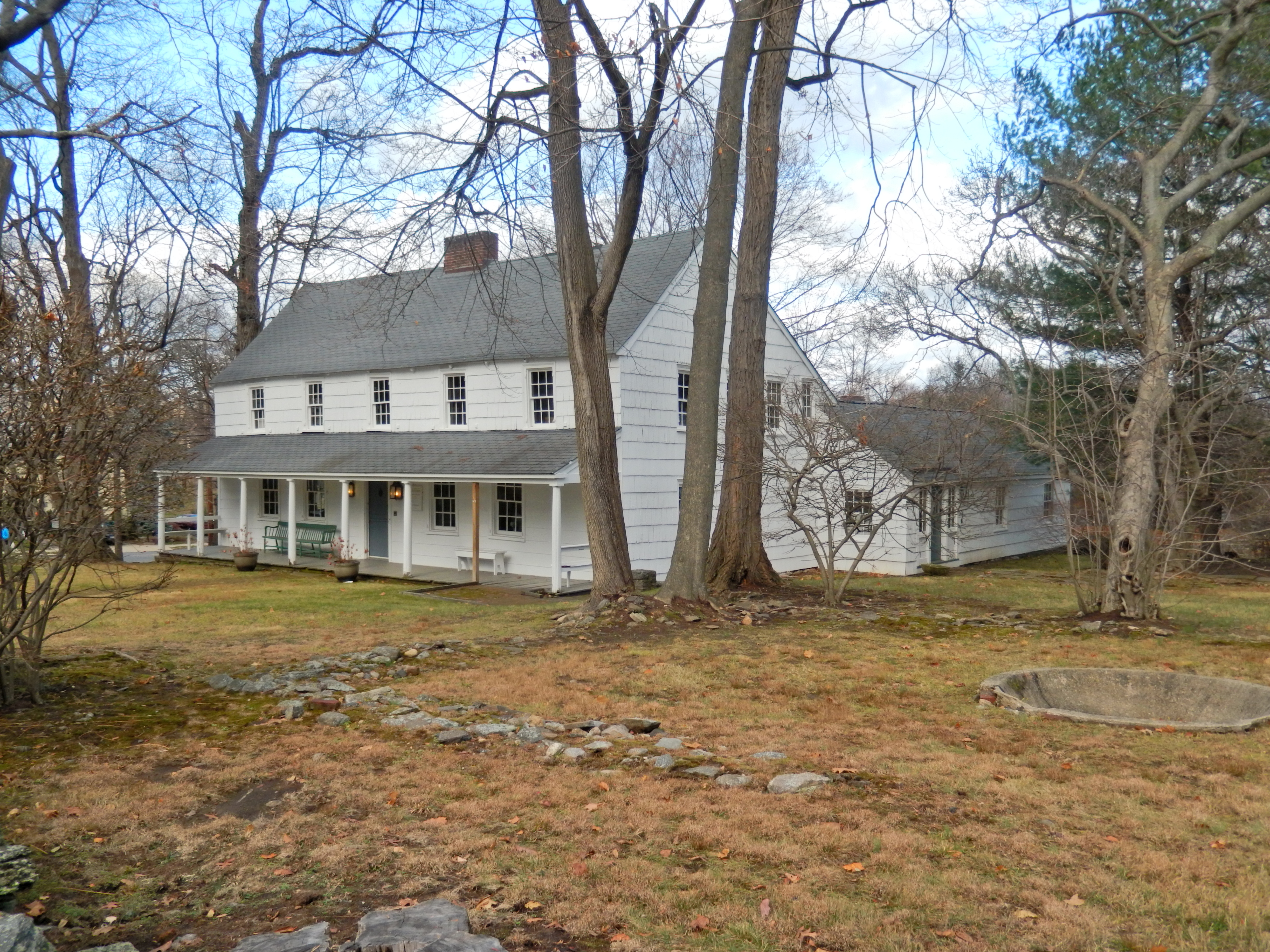 Timothy Knapp House built between 1667 and 1670, Rye, New York